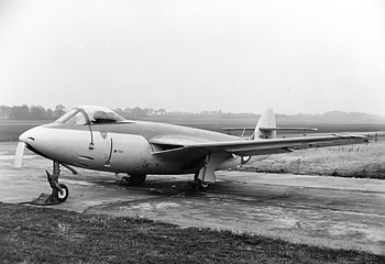 Hawker Sea Hawk F1 is Parked.